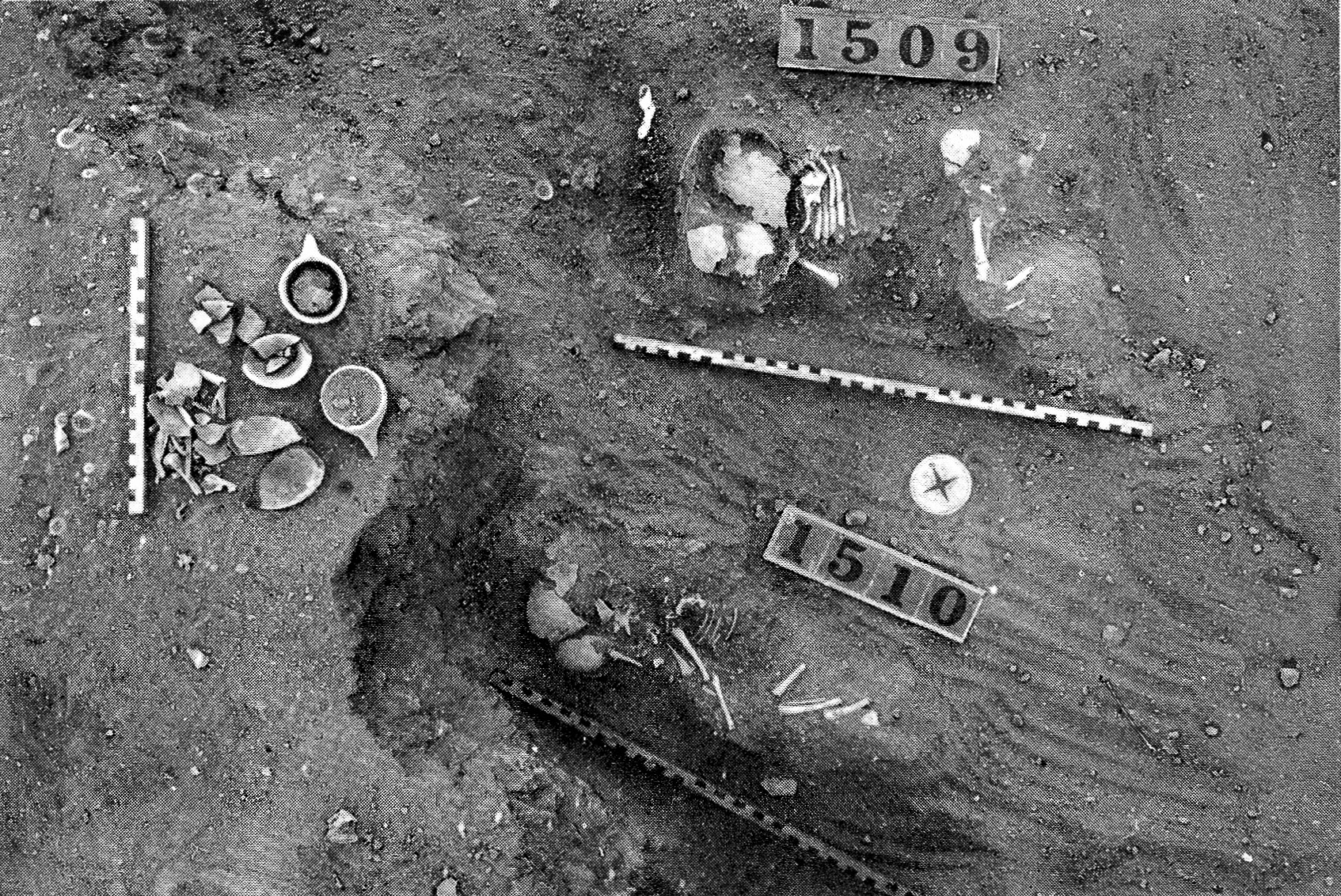 Jebel Moya; excavation. General Collections Keywords: Archaeology; Addison, Frank